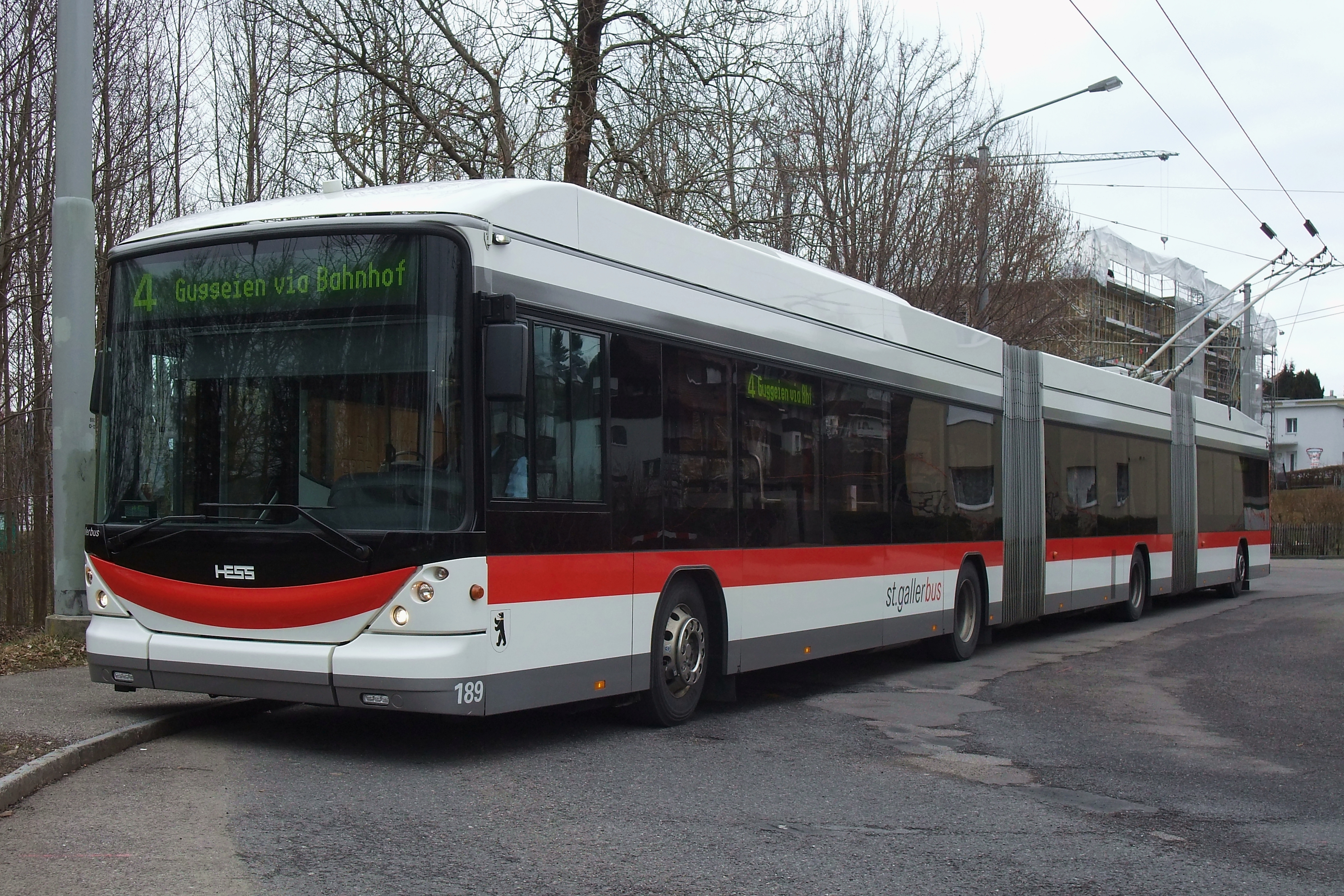 Bi-articulated trolleybus Hess lighTram Number 189 of St. Gallen Municipal Transport Services (VBSG) at Wolfganghof loop, the southern terminus of trolleybus line 4.